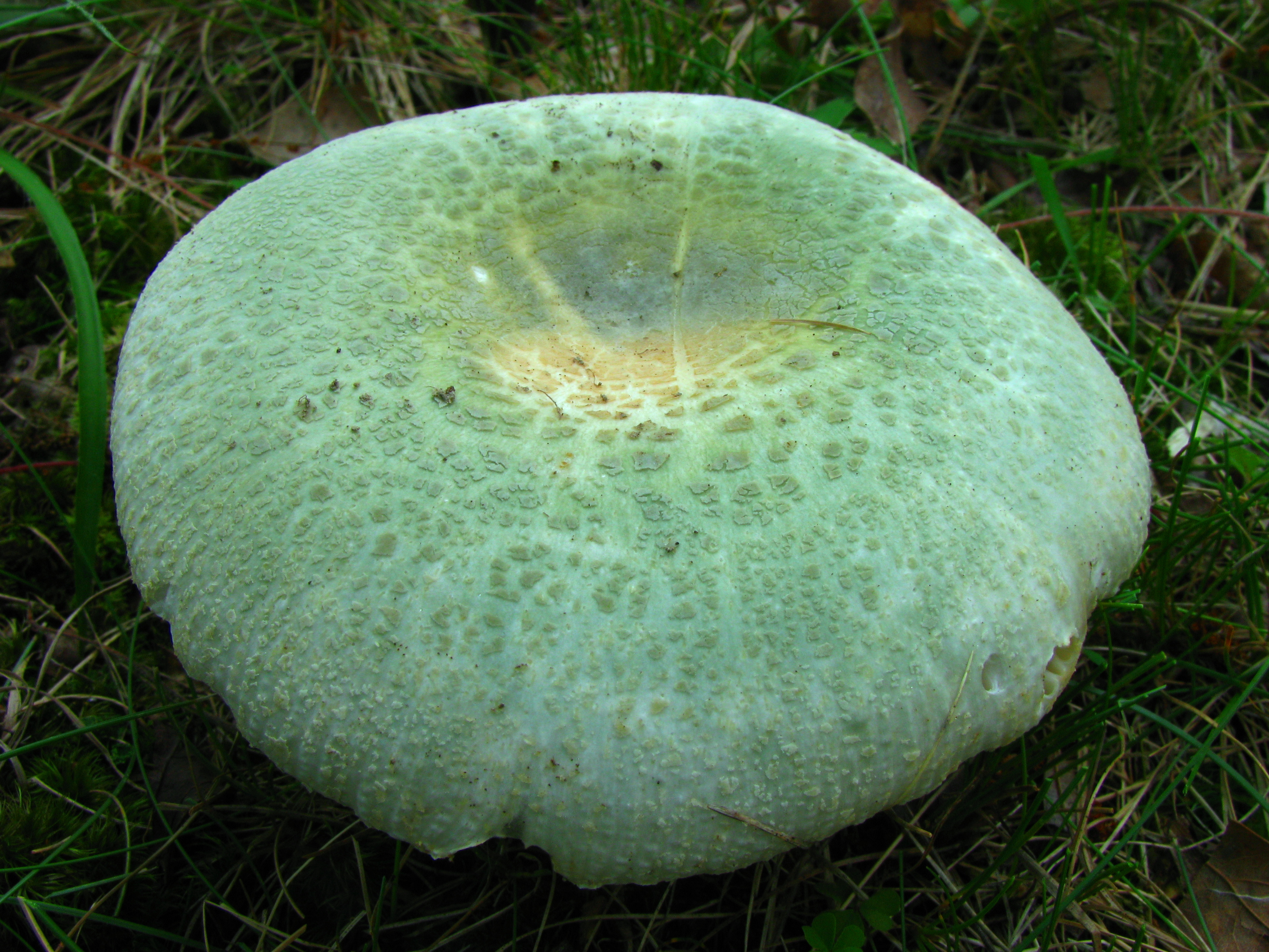 Russula parvovirescens Buyck, D. Mitch. & Parrent Location: Rest Area, north bound, State Highway 33, between Pomeroy and Athens, Ohio, USA For more information about this, see the observation page at Mushroom Observer.